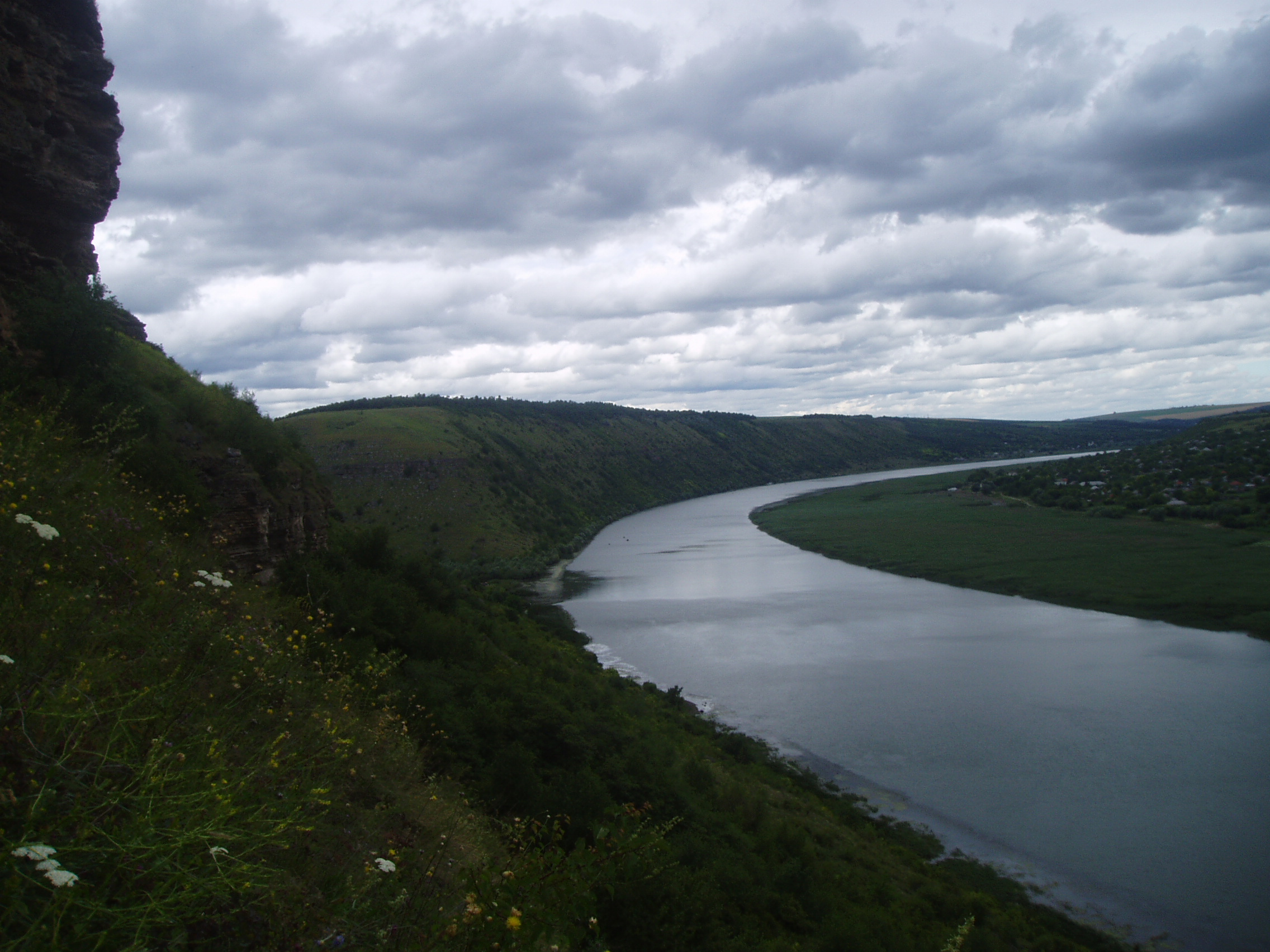 In Ţipova, Moldova, the river Nistru to the left.